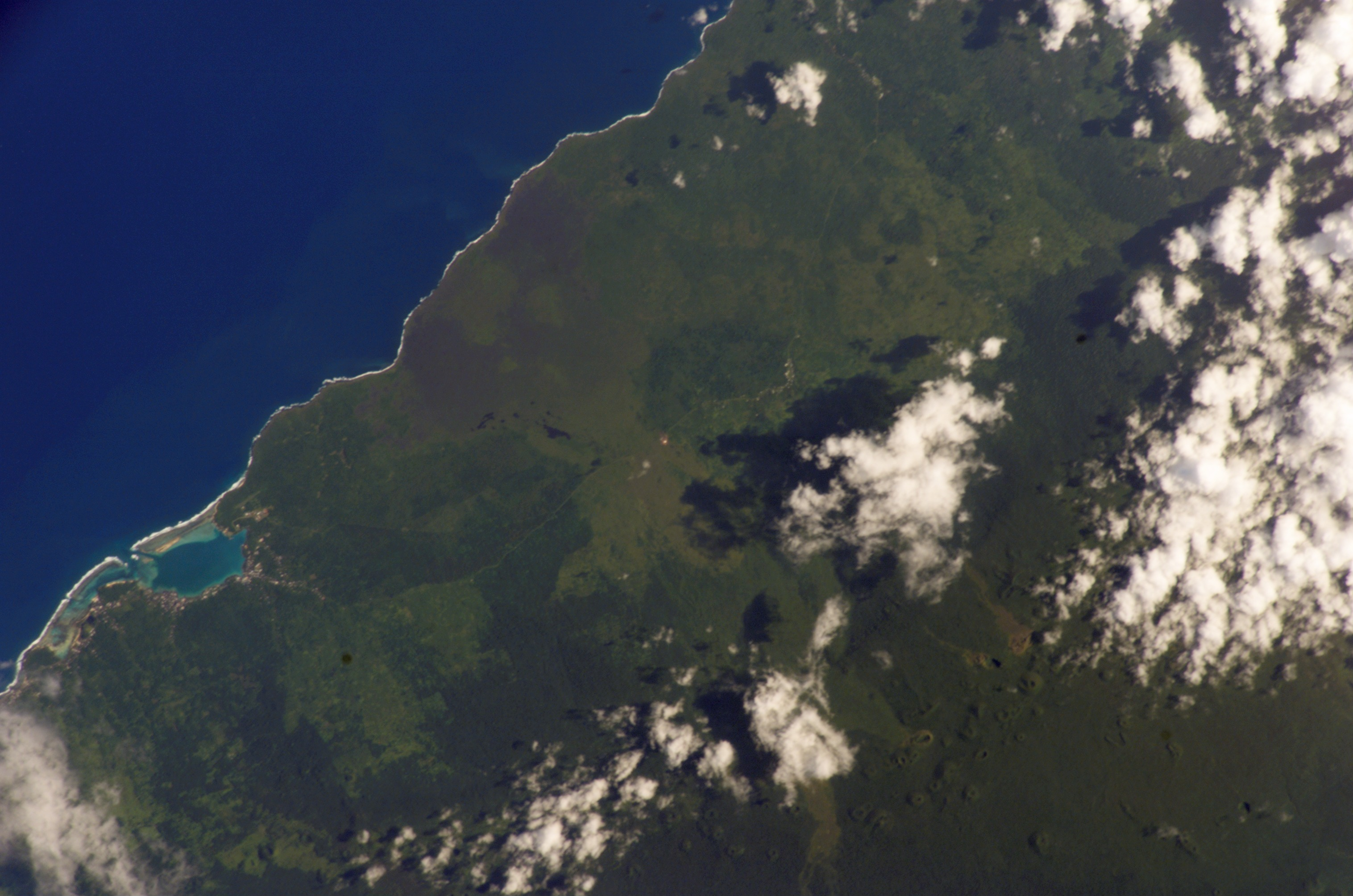 Satellite photo of Savai'i, central west coast with Asau harbour, lava fields and Aopo village inland with volcanic cones along the center of the island.